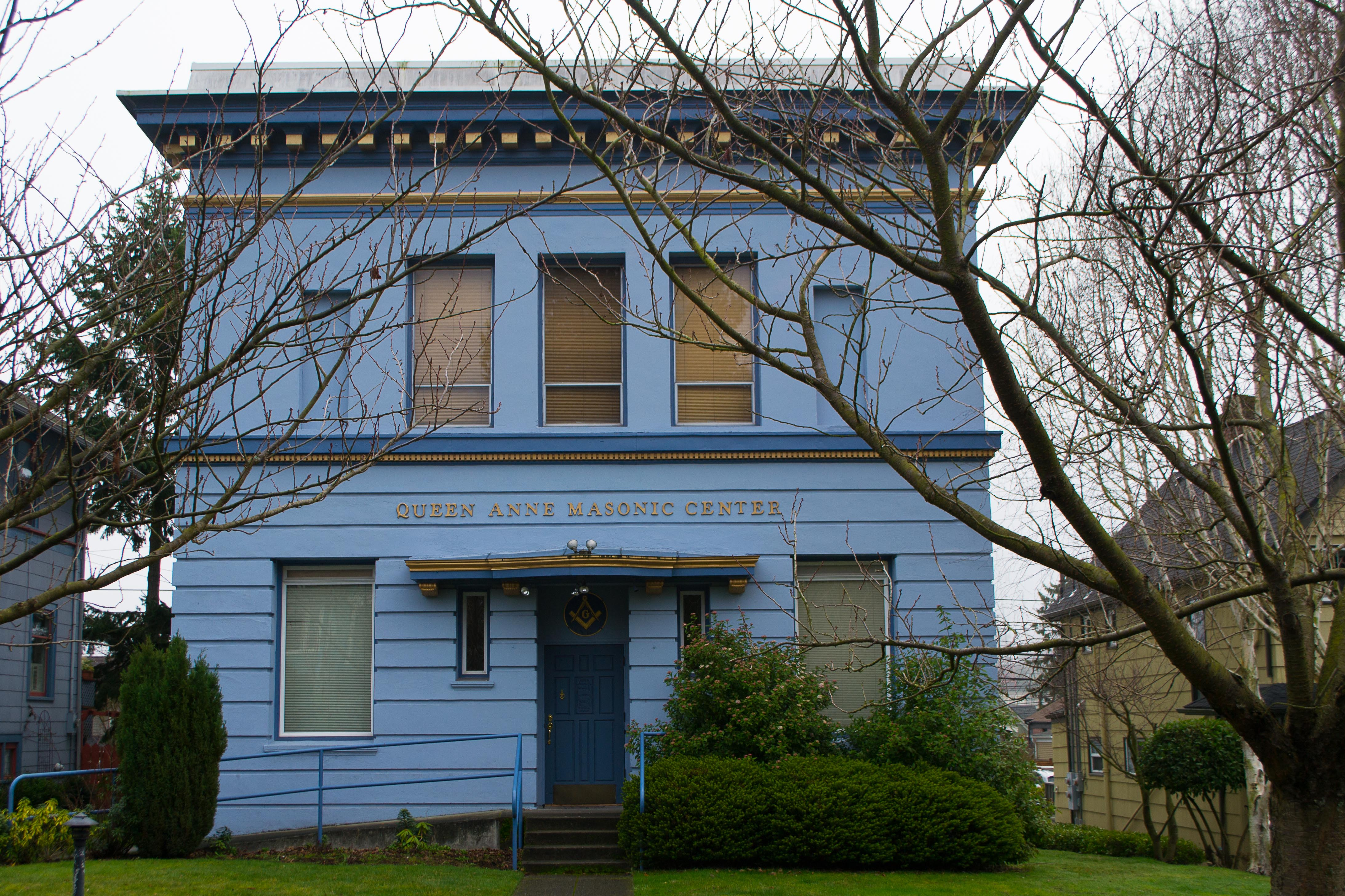 Queen Anne Masonic Center